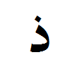 The letter dhal from the Arabic alphabet. It denotes the sound /th/ as in “then” (IPA: ð).